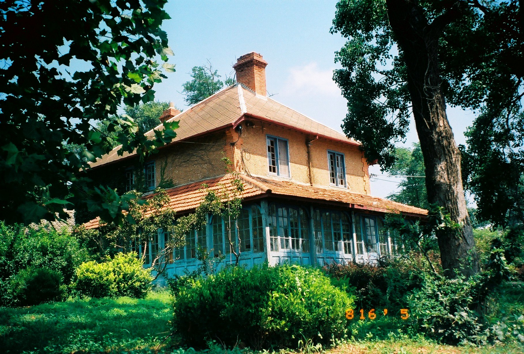 Photograph of a historical British residence on Liugong Island, Shandong Province, China. Picture taken on August 16 2005 by Rolf Müller.